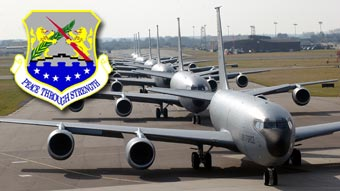 100 ARW KC-135s lined up on the taxiway at RAF Mildenhall